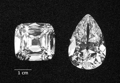 Cullinan diamonds IV and III with a scale (IV is 2.4 cm across).